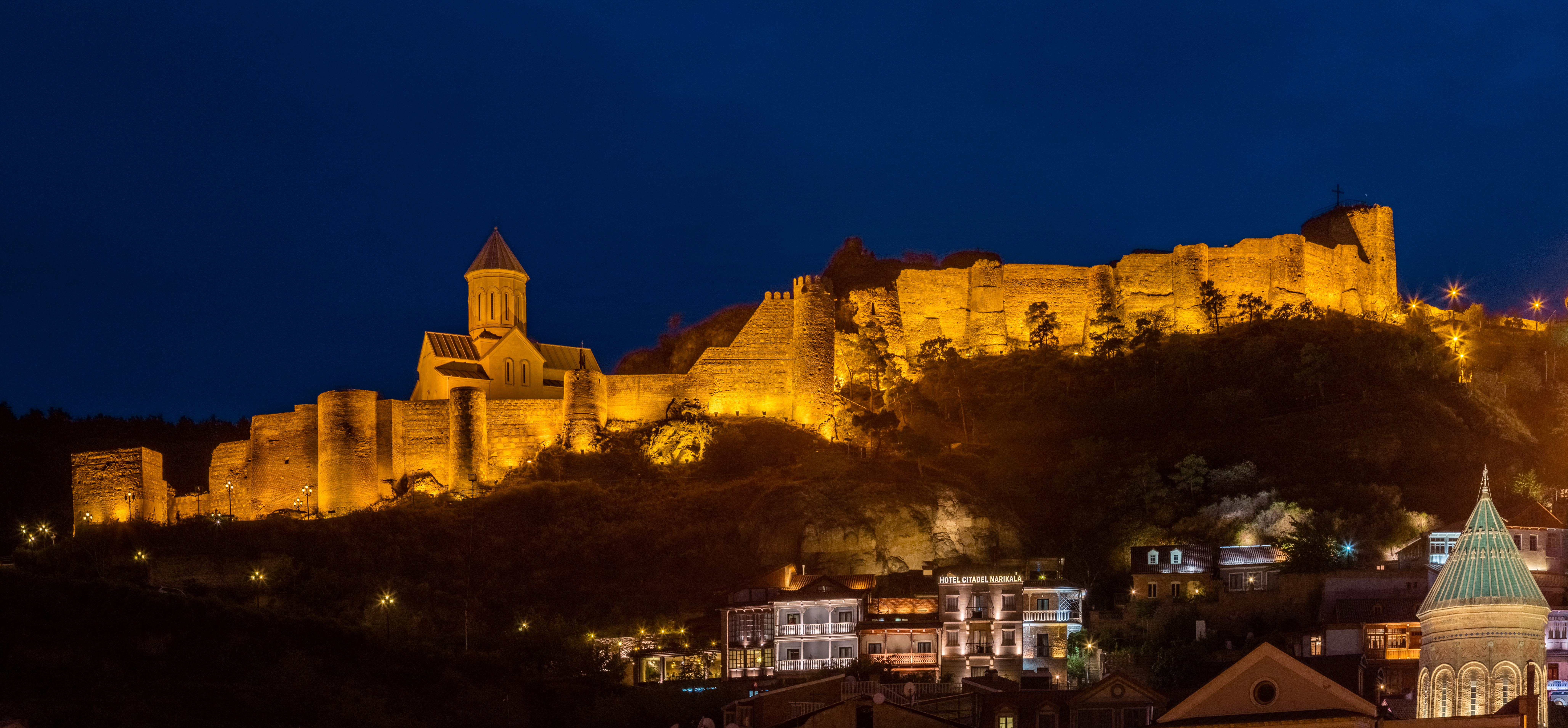 Narikala, Tbilisi, Georgia